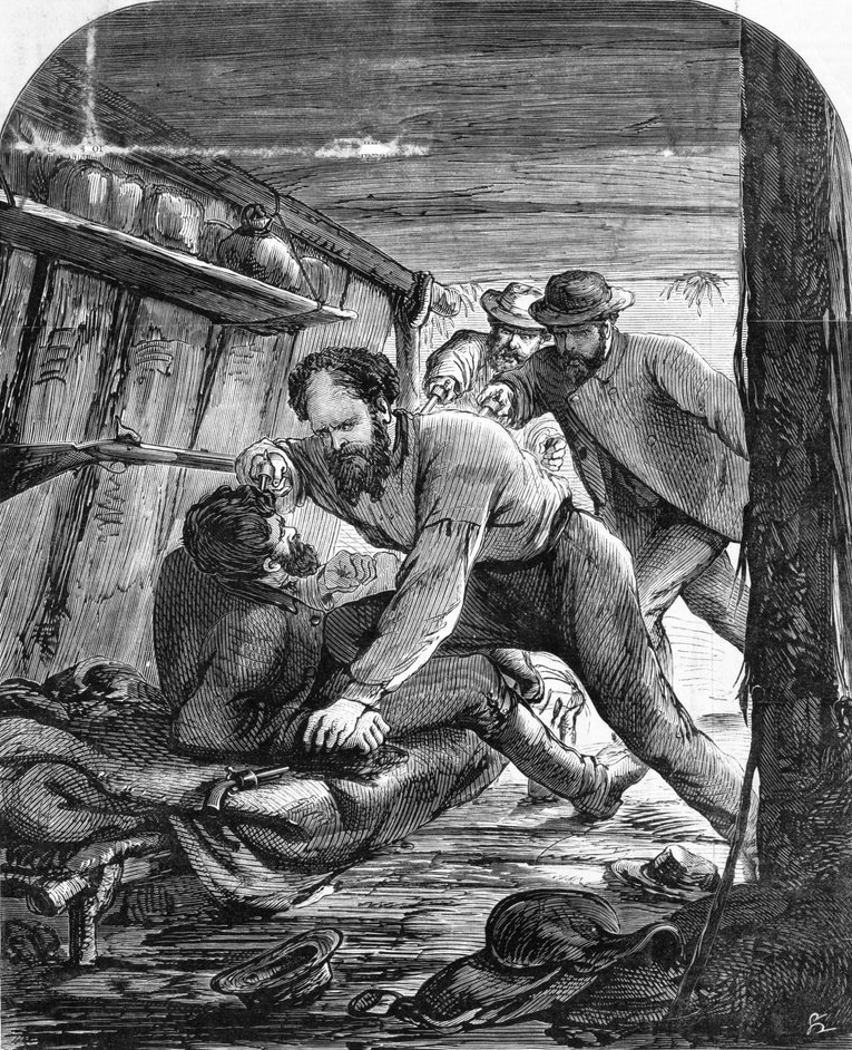 Capture of Australian bushranger Harry Power.